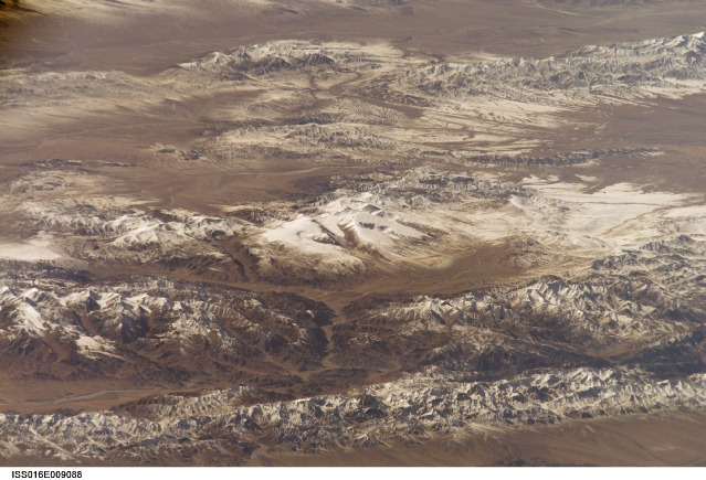 Aerial view of Shule River, northern China